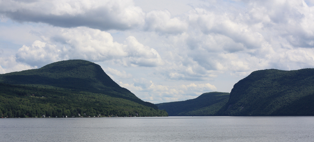 Framed shot of Mount Pisgah (left) and Hor Mountain rising up above Willoughby Lake. Taken from the north beach.